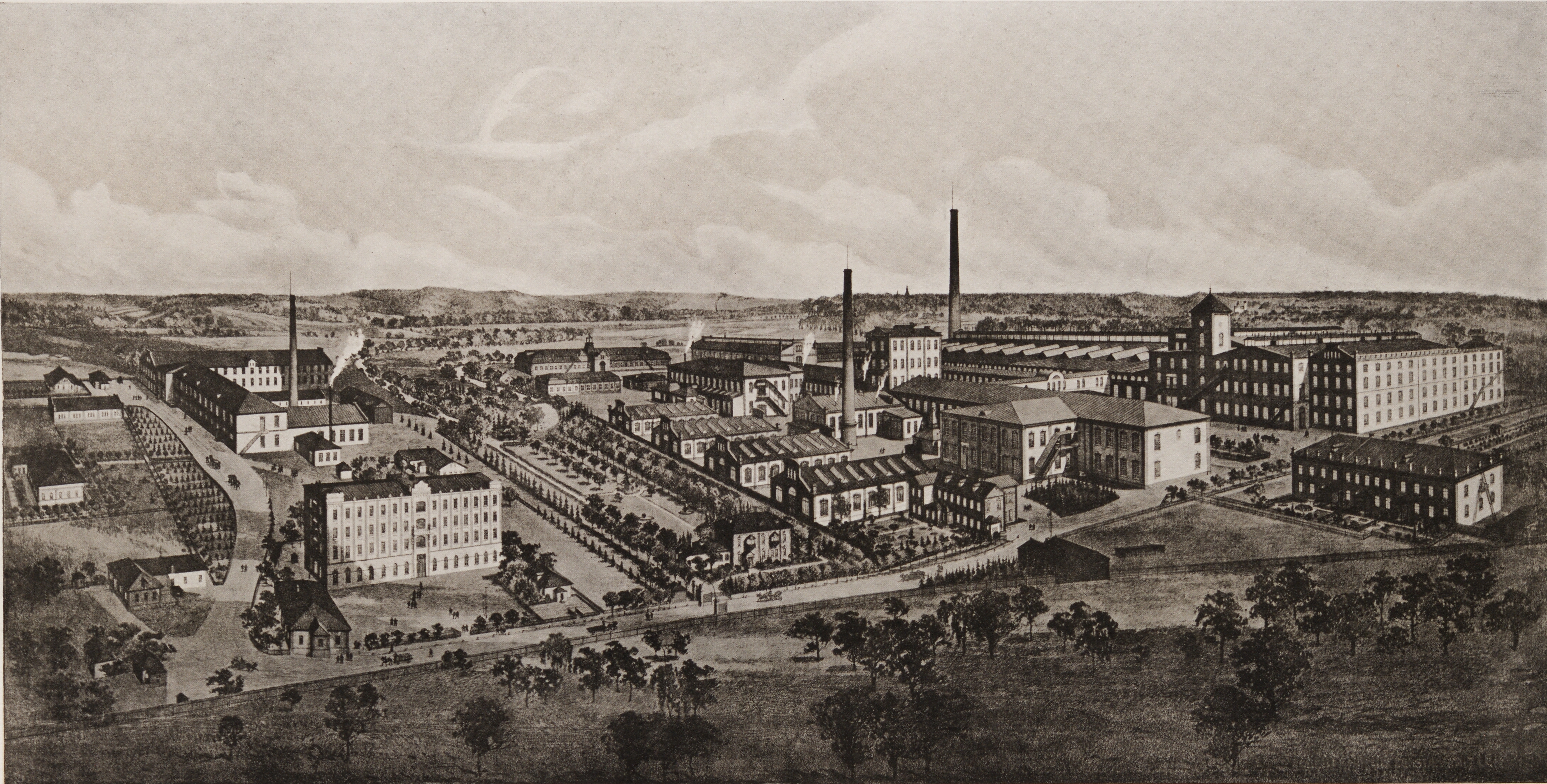 Factory partnership "Franc Reddaway and company" near the village of Spass-Setun